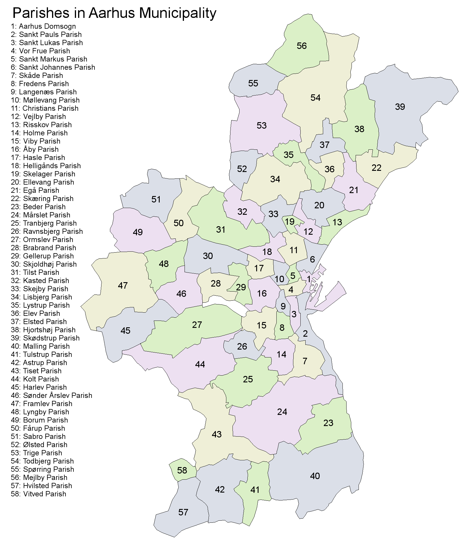 Parishes in Aarhus Municipality, Denmark w. English titles Danish: Sogne i Aarhus Kommune, Danmark m. Engelske titler Data based on Aarhus Municipality atlas and department of district information. Mapping data maintained by Geodanmark in cooperation with the Association of Danish Municipalities. All rights granted for worldwide public use, copying and transformation. All rights granted for worldwide public use, copying and transformation. (pdf)